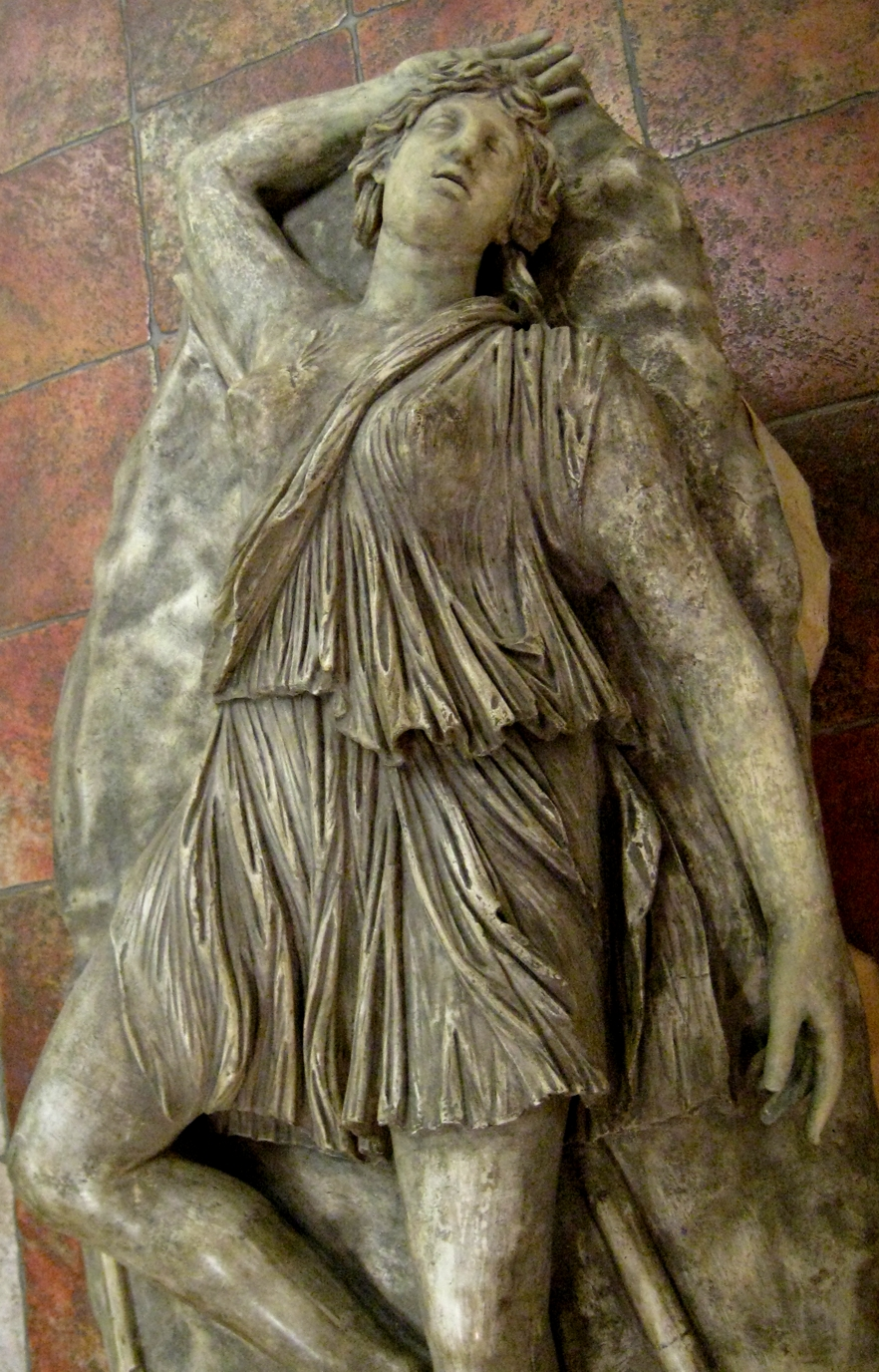 Slayed amazon. Cast in pushkin museum